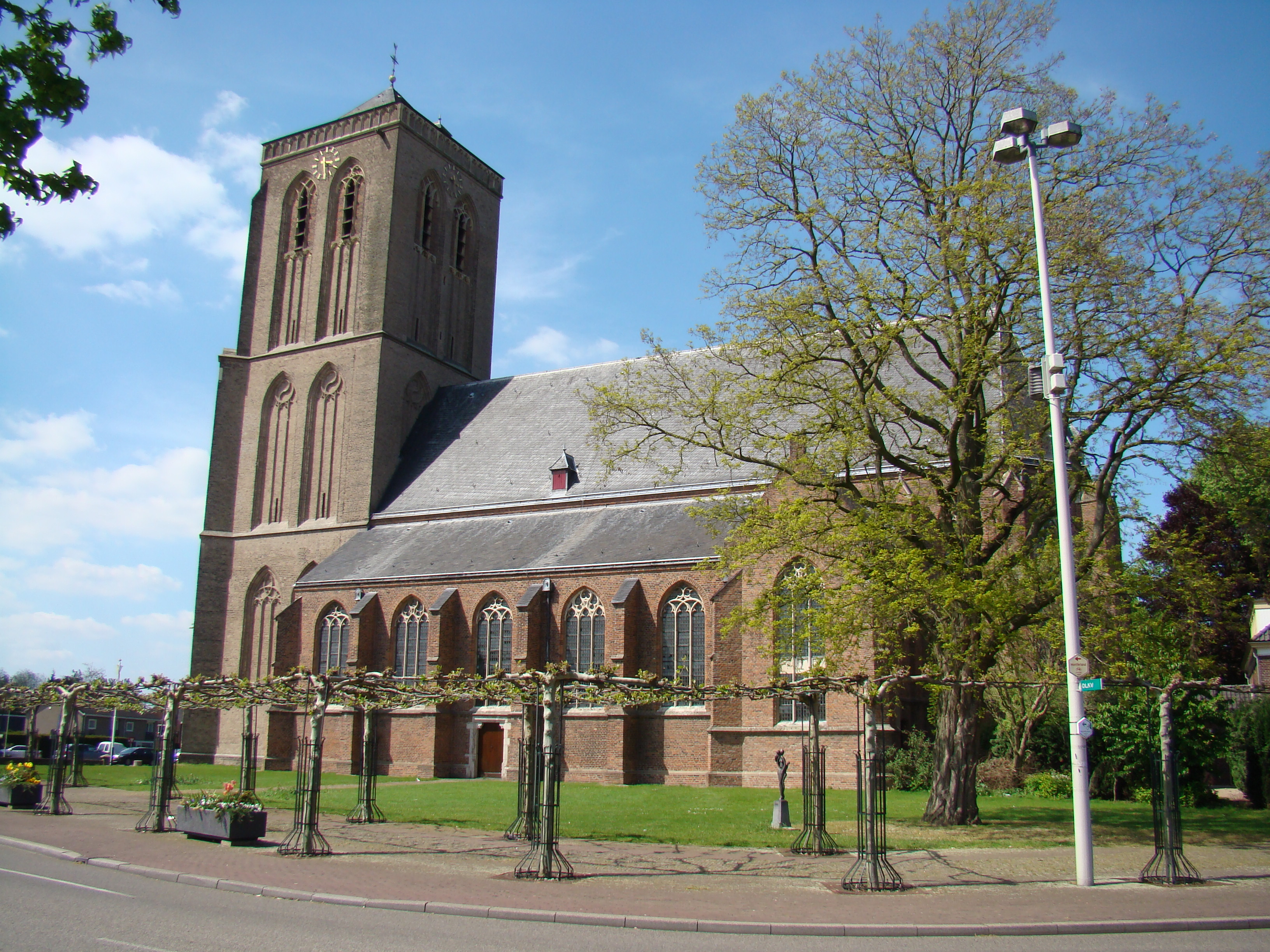 Didam, Lieve Vrouwe kerk, Netherlands